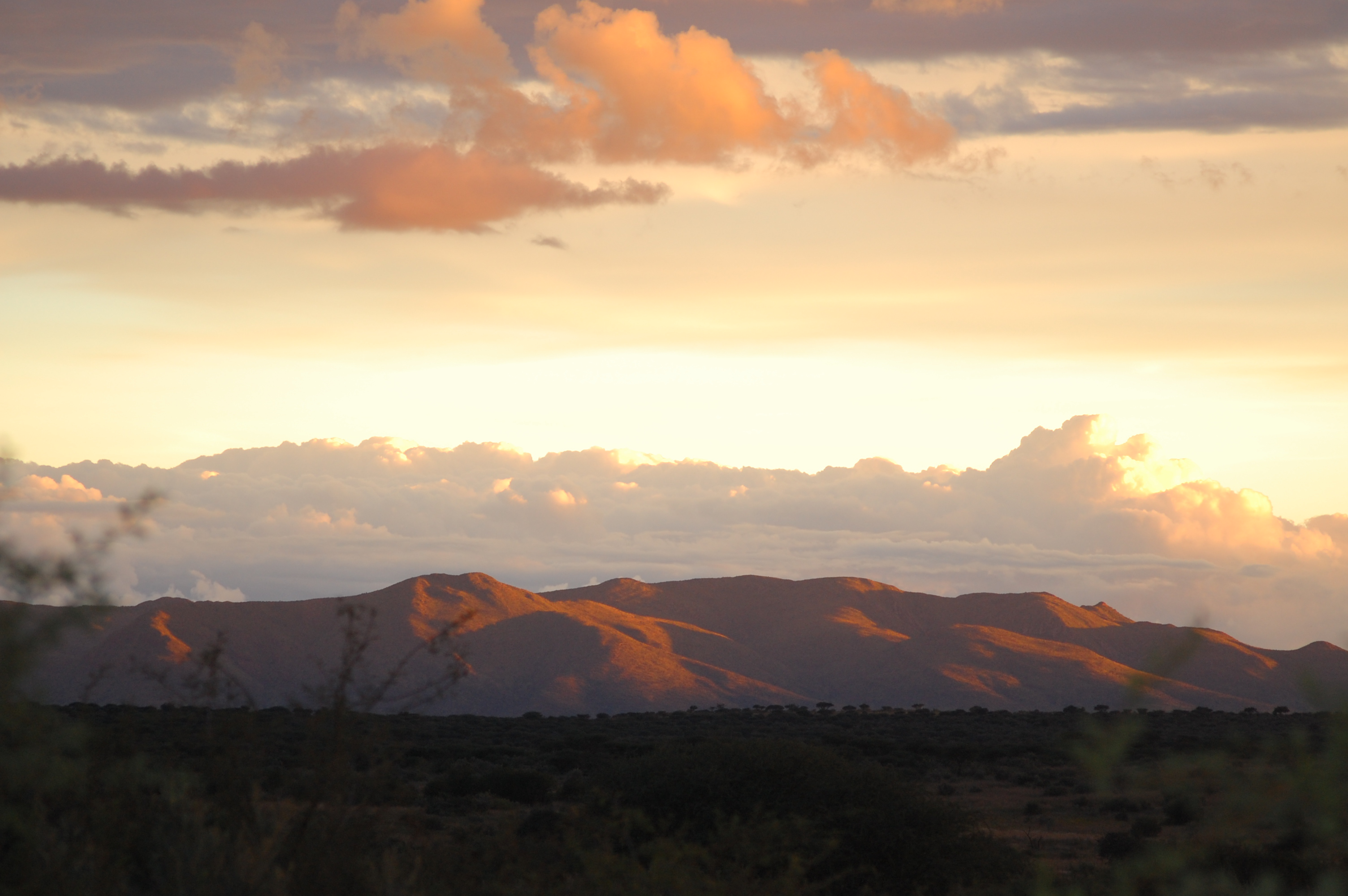 Naankuse Wildlife Sanctuary, Namibia